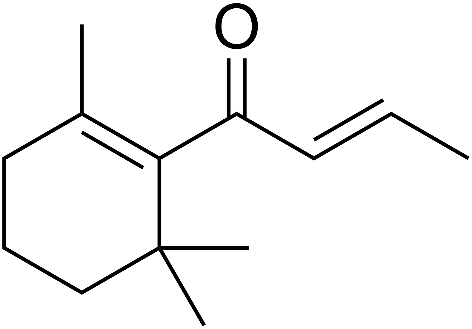 Chemical structure of beta-damascone